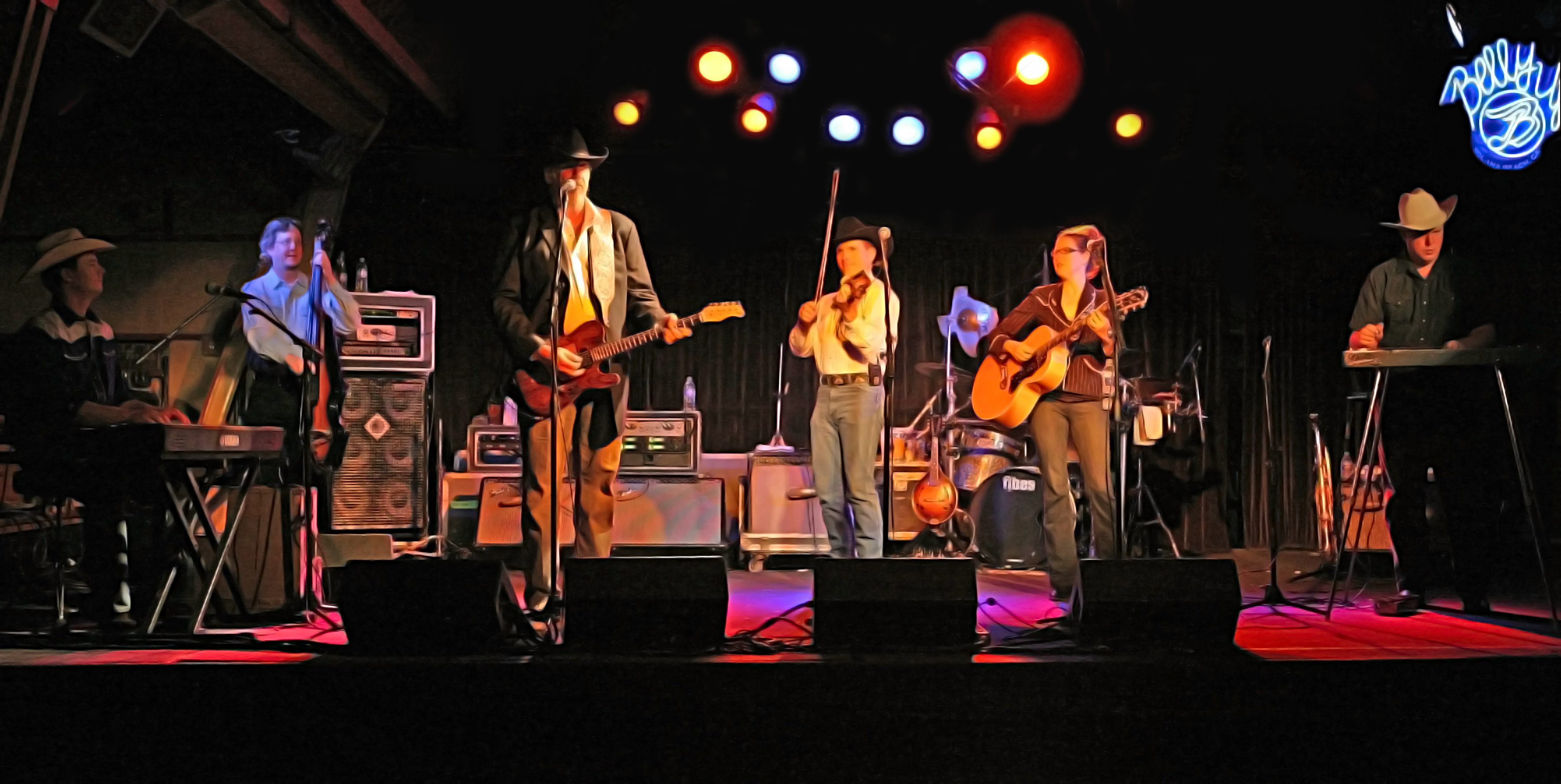 Asleep At The Wheel at BellyUp, Solana Beach, San Diego